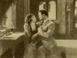 Still for the American film Dangerous Curve Ahead (1921) with Richard Dix and Helene Chadwick, on page 67 of the January 1922 Photoplay.